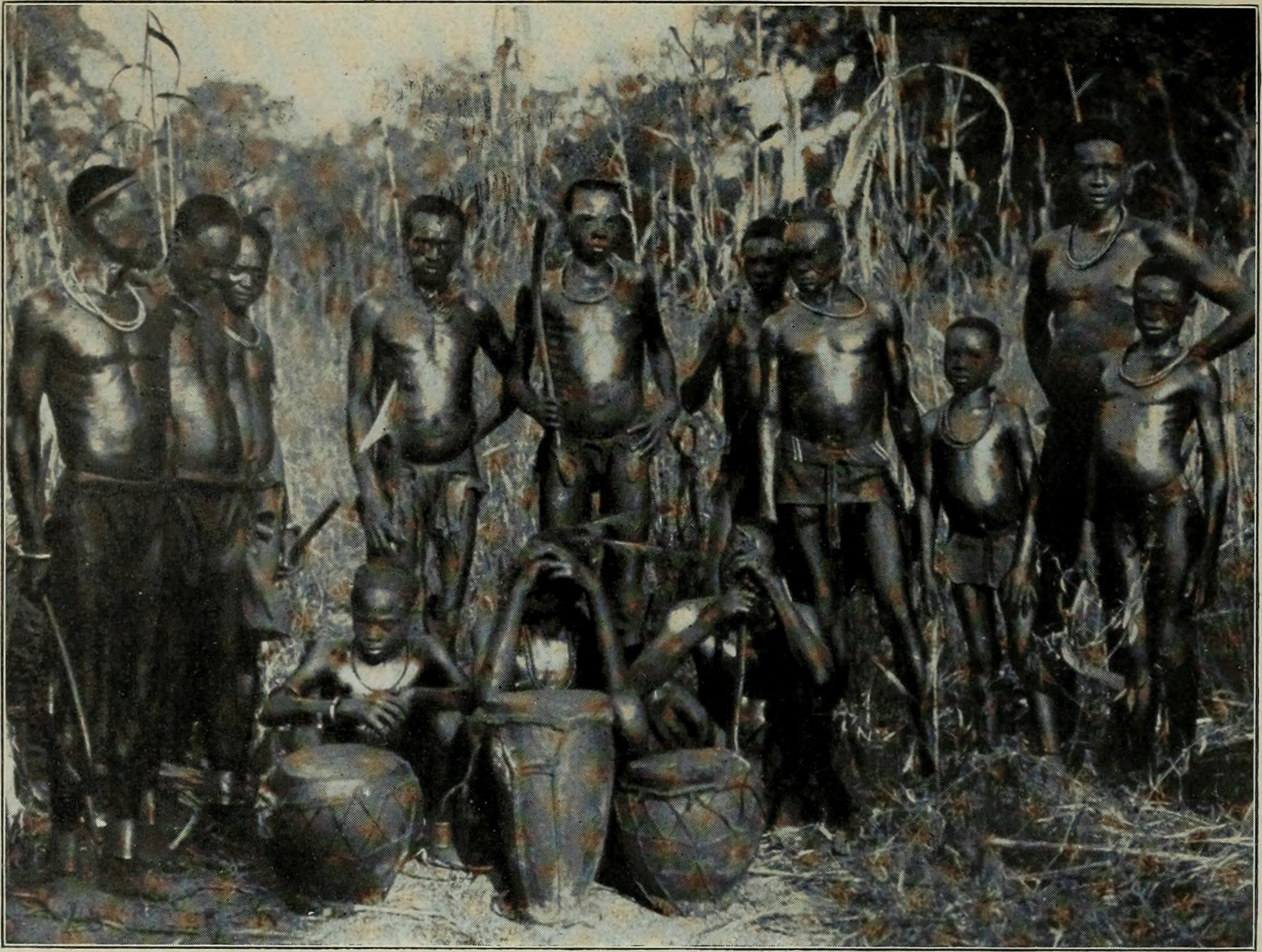 Sara in the camp at Jundu, 1910 Title: From the Congo to the Niger and the Nile : an account of The German Central African expedition of 1910-1911 Year: 1913 (1910s) Authors: Adolf Friedrich, Duke of Mecklenburg-Schwerin, 1873-1969 Deutsche Zentral-Afrika-expedition, 1910-1911 Subjects: Publisher: London : Duckworth Text Appearing Before Image: 40. Fort Arehambault. • 4$sBH0fl S%*^- **^ ay, ^^B h3%$2*rsl-: ..^ iSfj i Jr&ii. i IV Jr^mtjum ^^BSBfcffBM™»iE7lfc#^^*^ *r 41. Sara huts with mat fences. Text Appearing After Image: 42. Sara in the camp at Jundu.